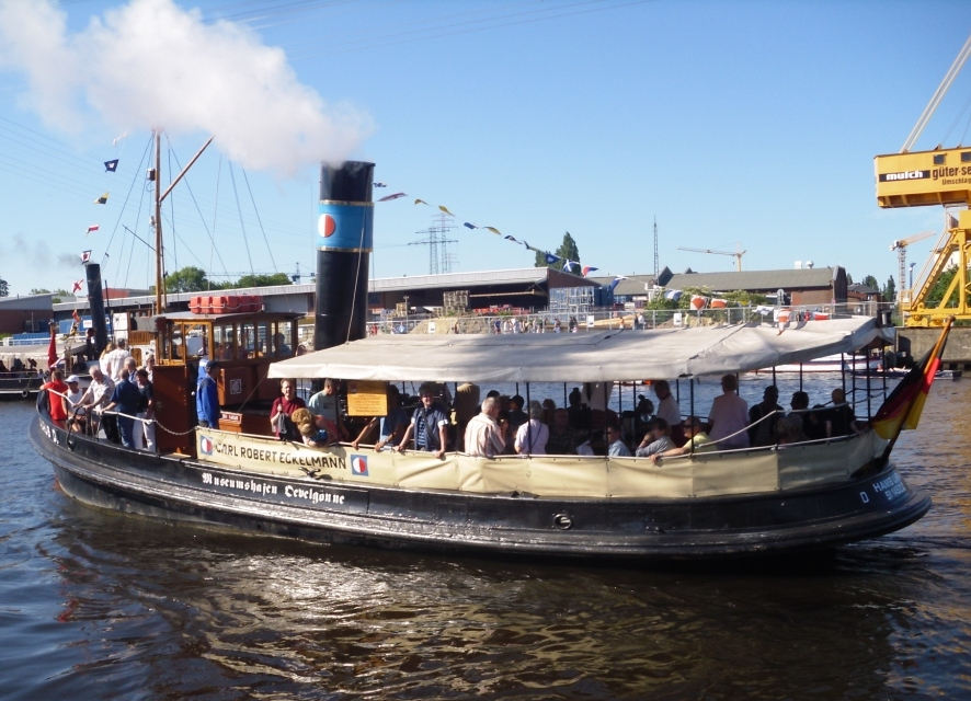 The Tug Claus D at the Harburg harbour festival in 2011